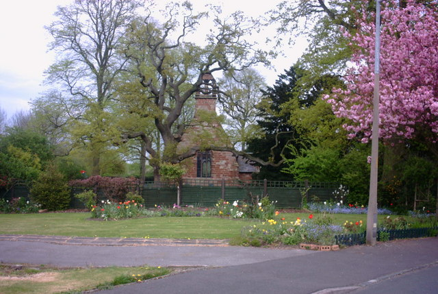 St Matthew's parish church, Derrington, Staffordshire, seen from the southwest from St Matthews Drive